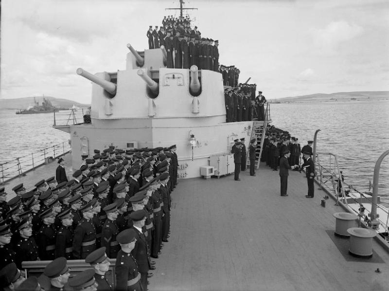 HMS Belfast during the Second World War Visit by HM King George VI, Scapa Flow: During a visit to ships of the Home Fleet, the King (far right) shakes hands with Captain Frederick Parham, Commanding Officer of HMS BELFAST, as he leaves the ship. The ship's company are present. In the foreground the ships' detachment of Royal Marines are gathered on the quarterdeck.